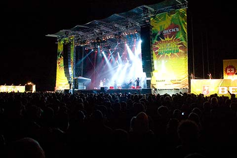 CRS_2007_mainstage_night